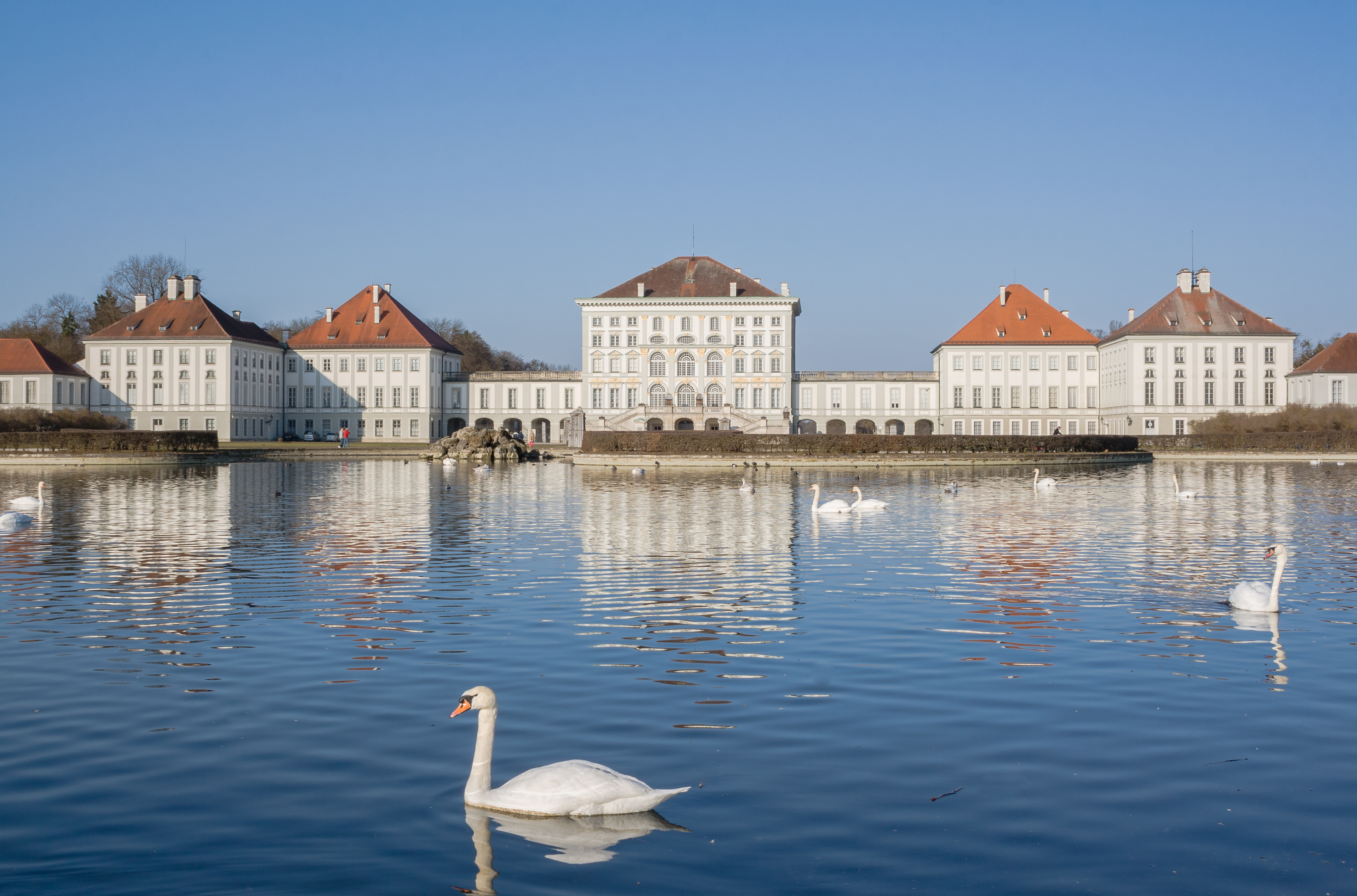 Exterior of the Nymphenburg Palace, Munich, Germany